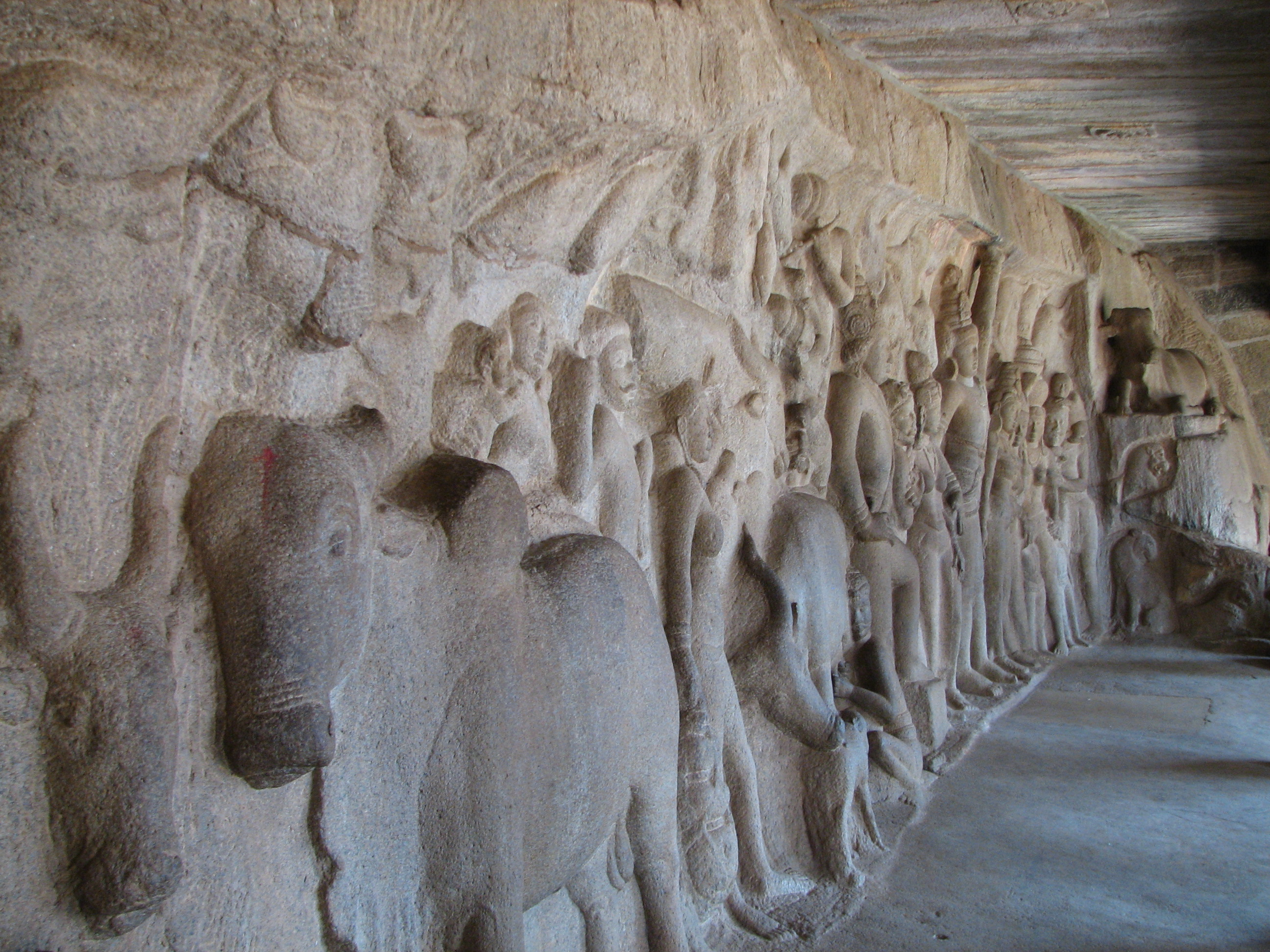 Relief on Rocks at Mamallapuram, Tamil Nadu, India